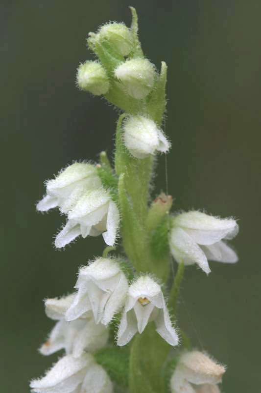 Goodyera repens flowers, Gavarnie (65) France.